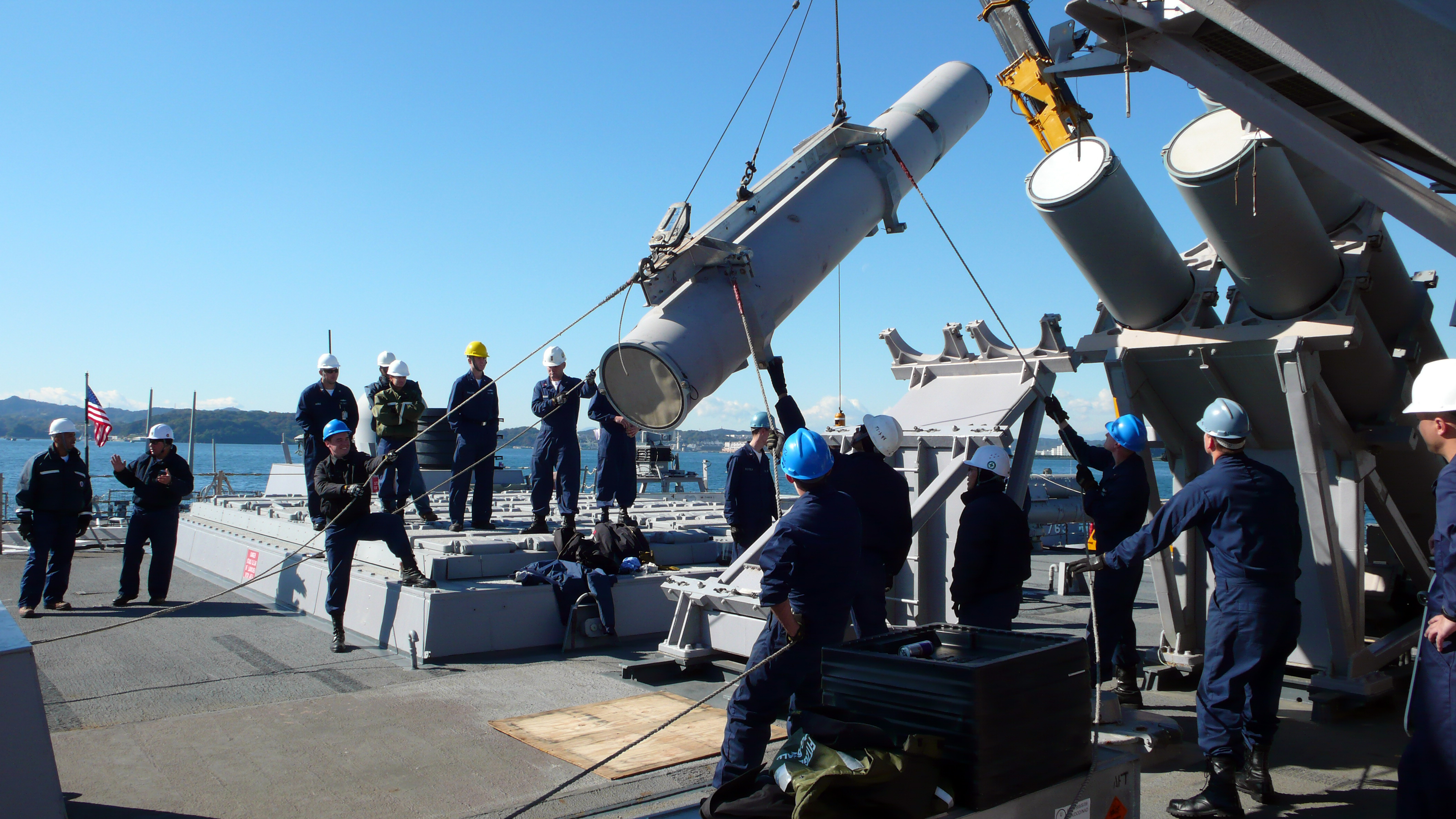 YOKOSUKA, Japan (Nov. 20, 2008) Members of the guided-missile destroyer USS Fitzgerald's (DDG 62) Harpoon handling team carefully lower an all-up-round Harpoon missile into its launch rack on the aft Vertical Launching Systems deck during ammunition onload operations with Naval Munitions Command Explosive Activities Division Detachment Yokosuka. (U.S. Navy photo by Ensign James Lamb/Released)